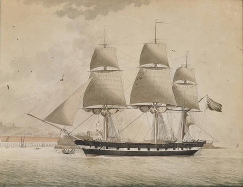 Ship Maitland comming (sic) into Malta 1835, by Nicholas Cammillieri Medium: watercolour on paperboard Size: 17.75 x 22 in. (45.1 x 55.9 cm.)